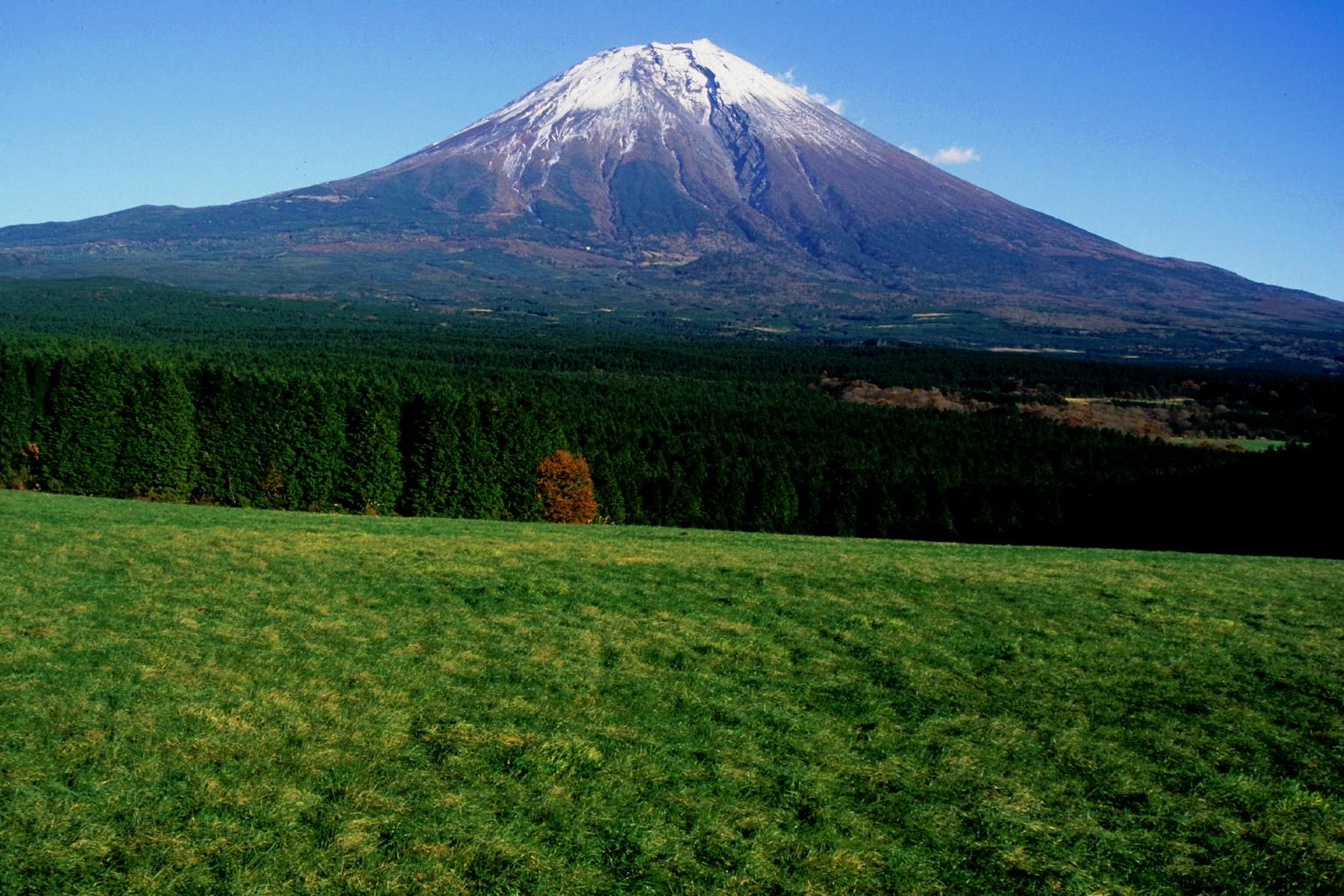 Mount Fuji from Asagiri Plateau